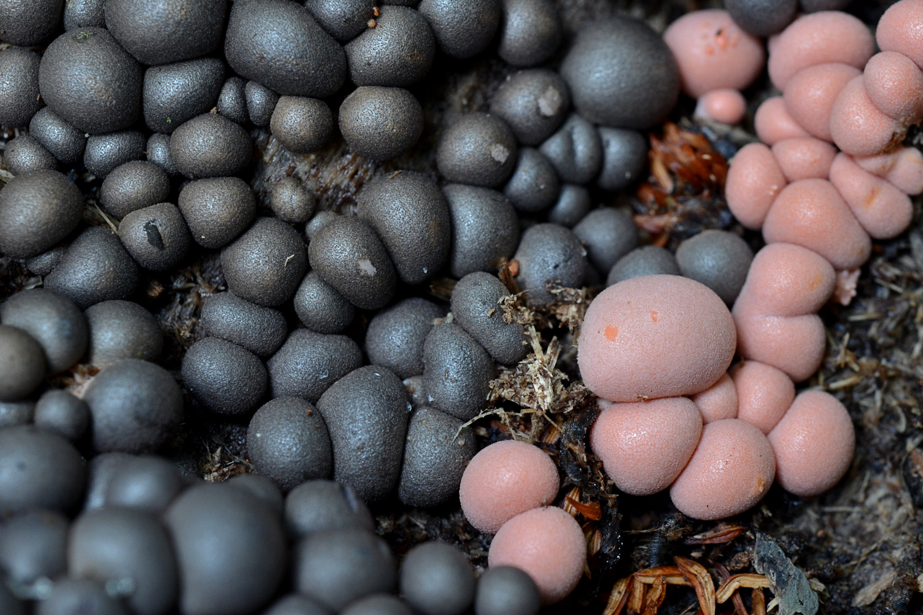 Myxogastria: Lycogala epidendrum Soberania National Park, Colon, Panama